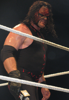 Kane @ Adelaide, South Australia WWE house show on the 29th of July '13